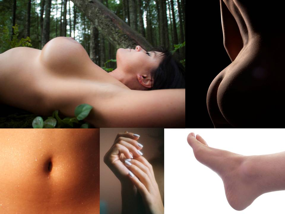 Montage of partialism body parts